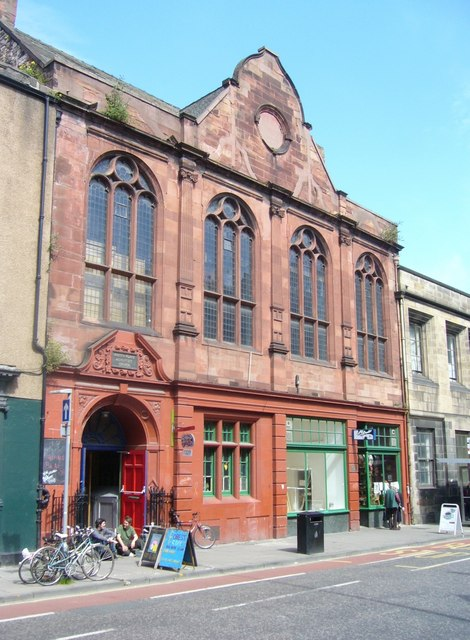 Student Café, Bristo Place